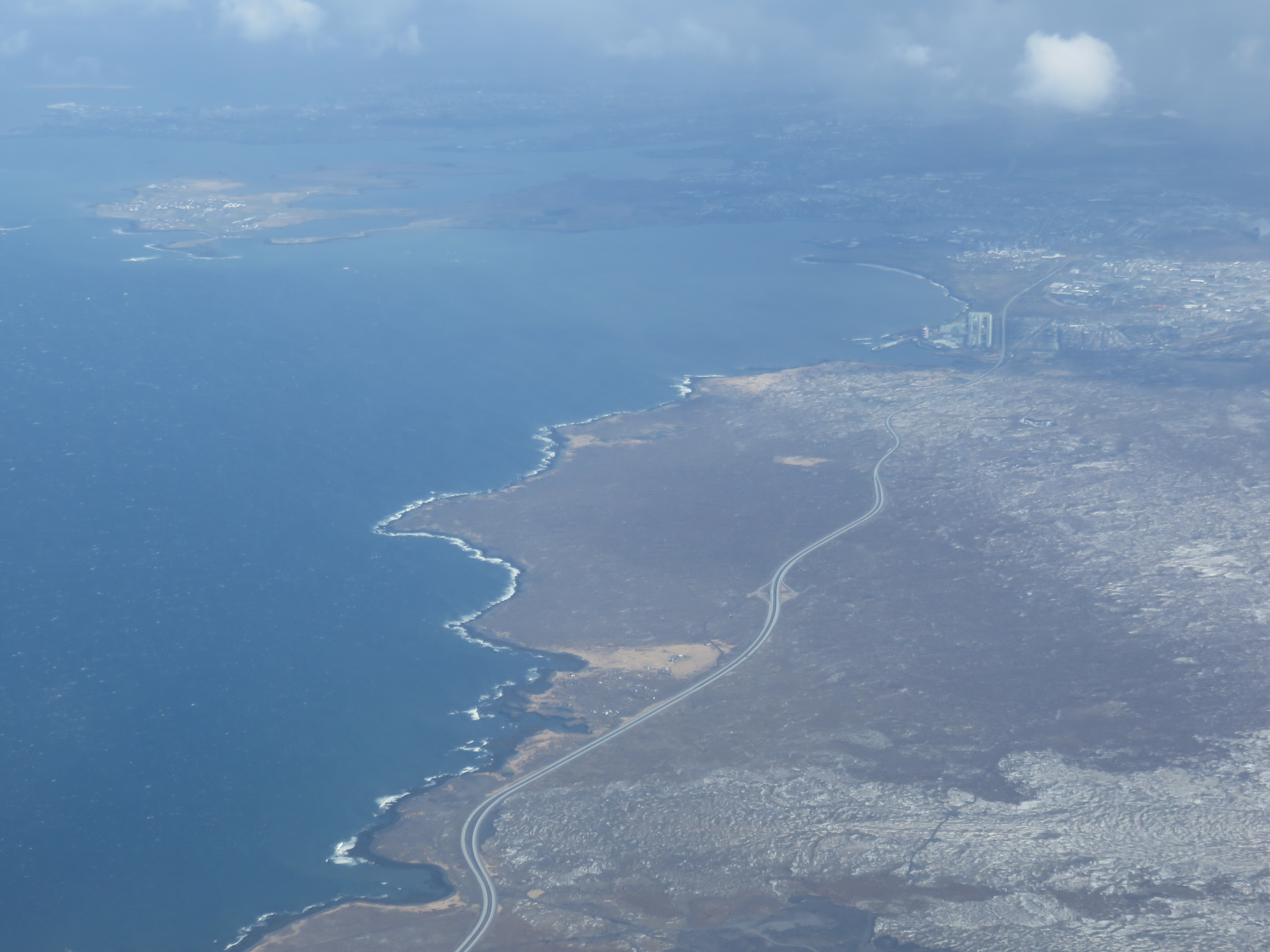 Aerial view of Route 41 and Reykjavík